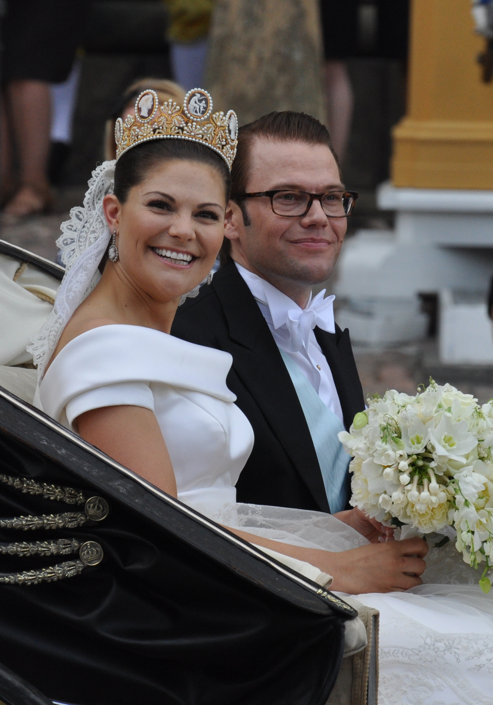 Wedding of Victoria, Crown Princess of Sweden, and Daniel Westling; Cortège at Slottsbacken